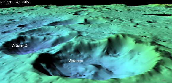 Virtanen's equatorial latitudes laser altimeter observations